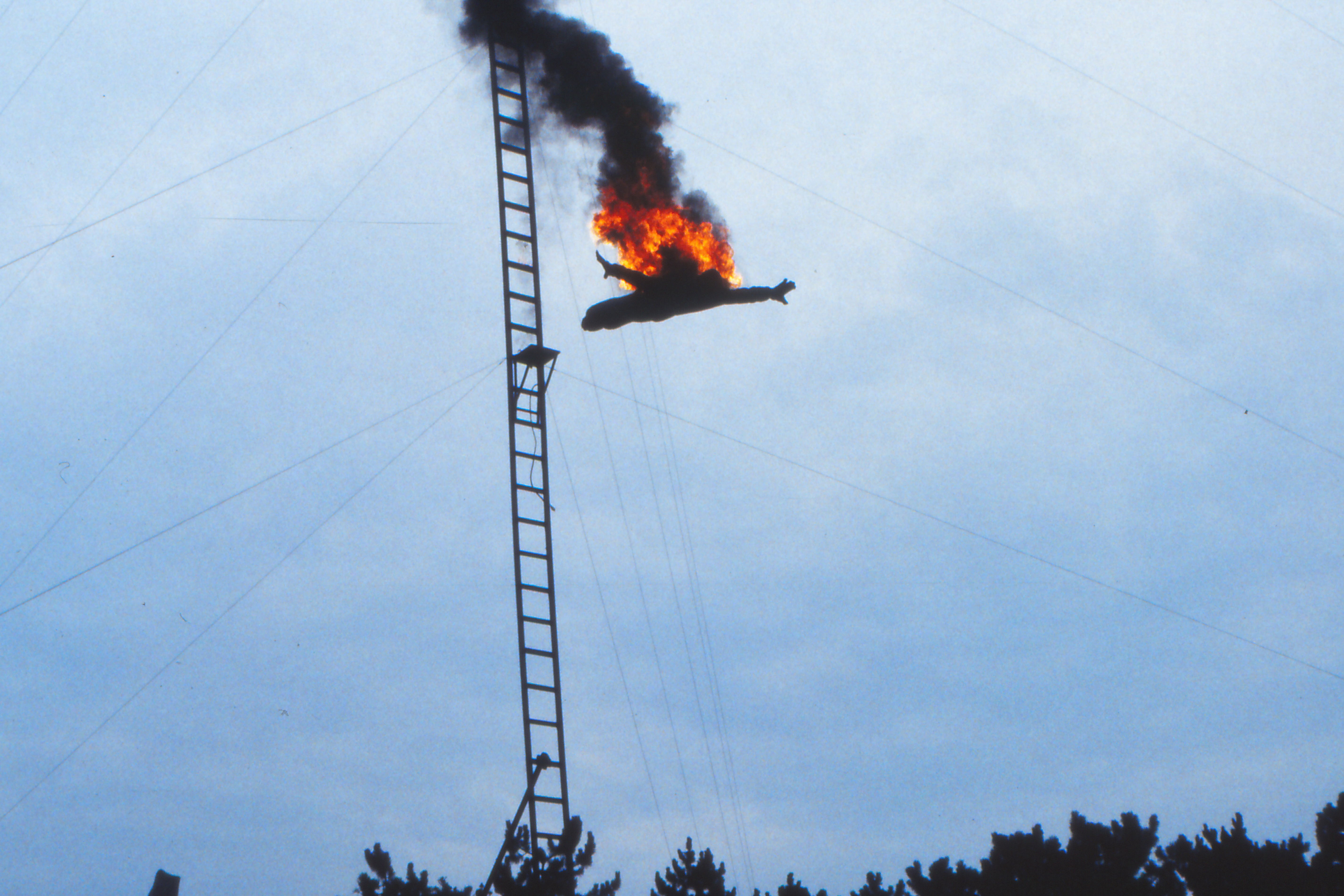 Safaripark Gänserndorf 1985 Acapulco Show